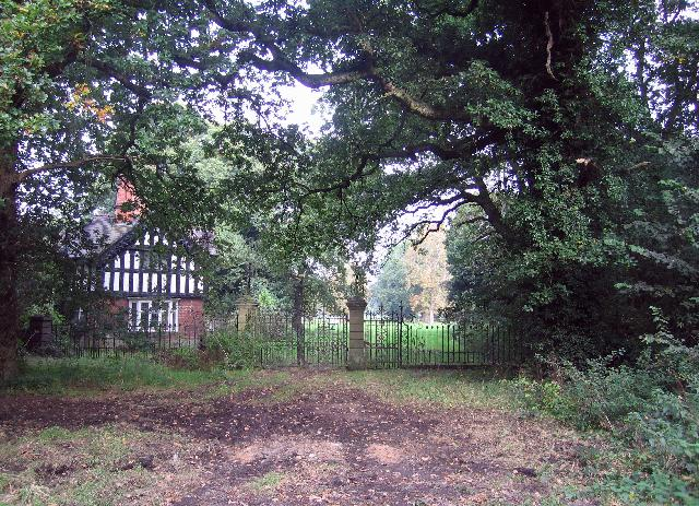 Bostock Hall, South Lodge Bostock Hall itself was converted to apartments some years ago, so the lodge is no longer needed as a lodge.